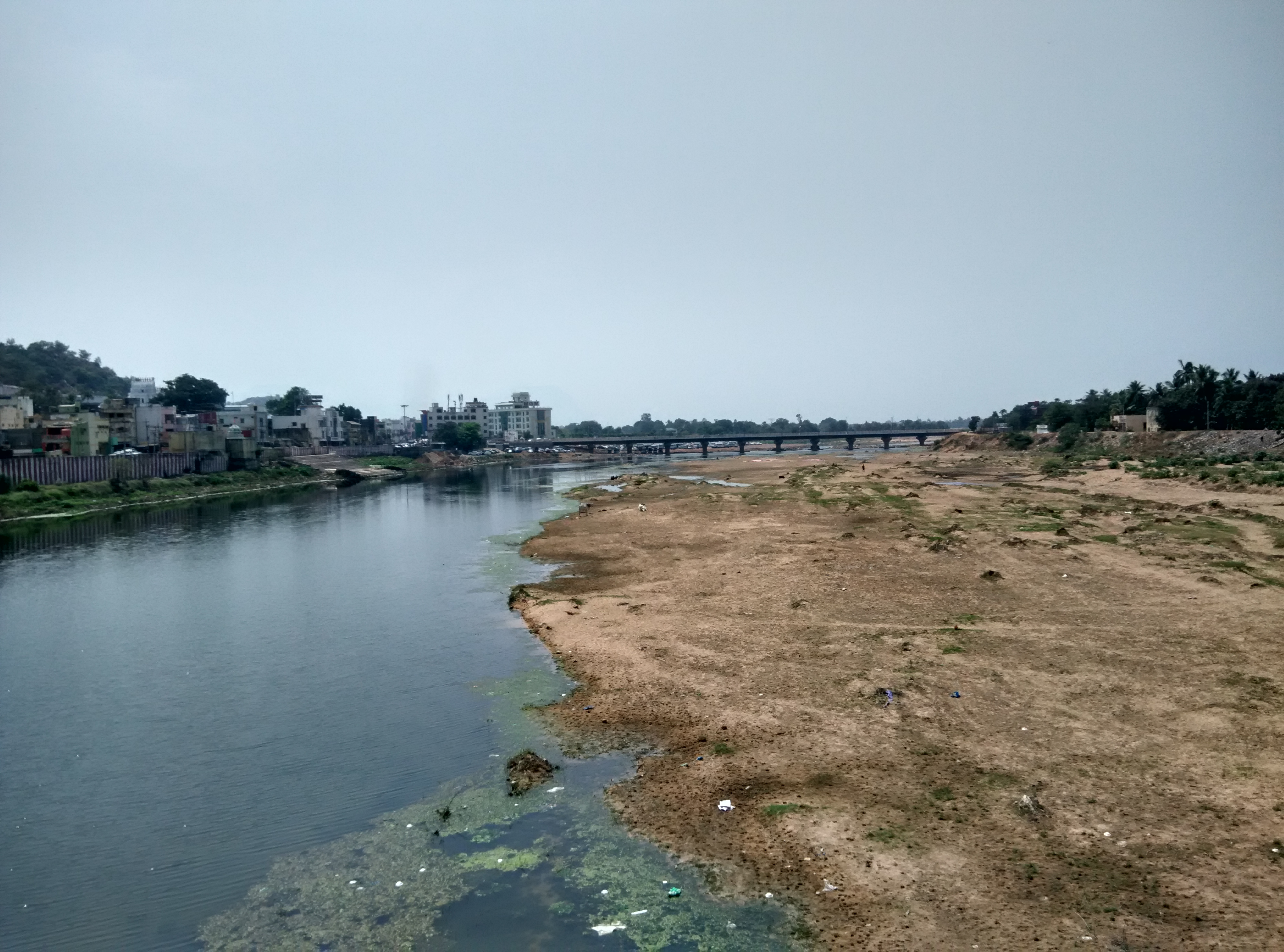 A view of River Swarnamukhi at Srikalahasti, Andhra Pradesh, India